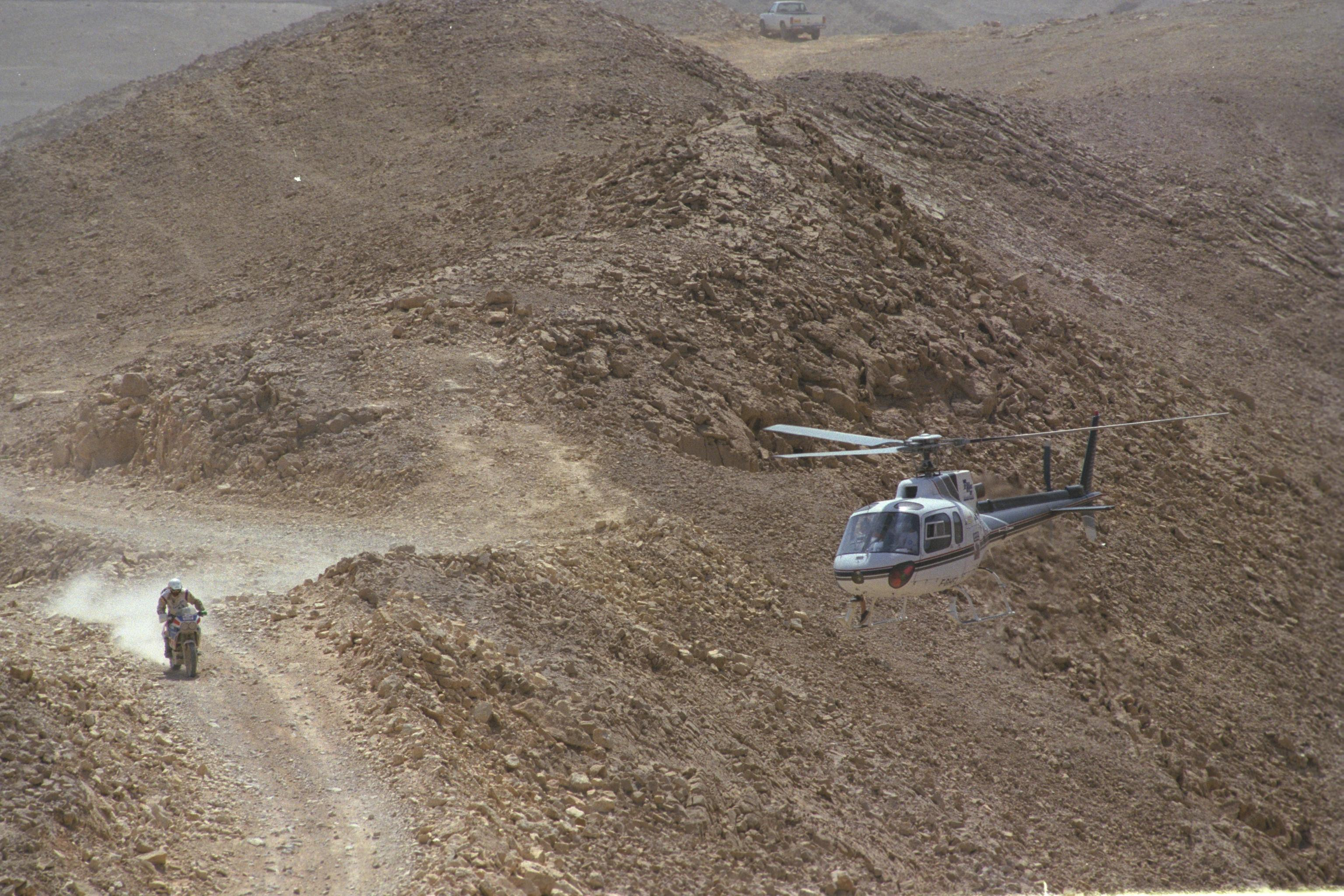 A HELICOPTER ACCOMPINING A MOTORCYCLE PARTICIPATING IN THE PHARAOHS RALLY HELD IN THE NEGEV (08/10/1994).